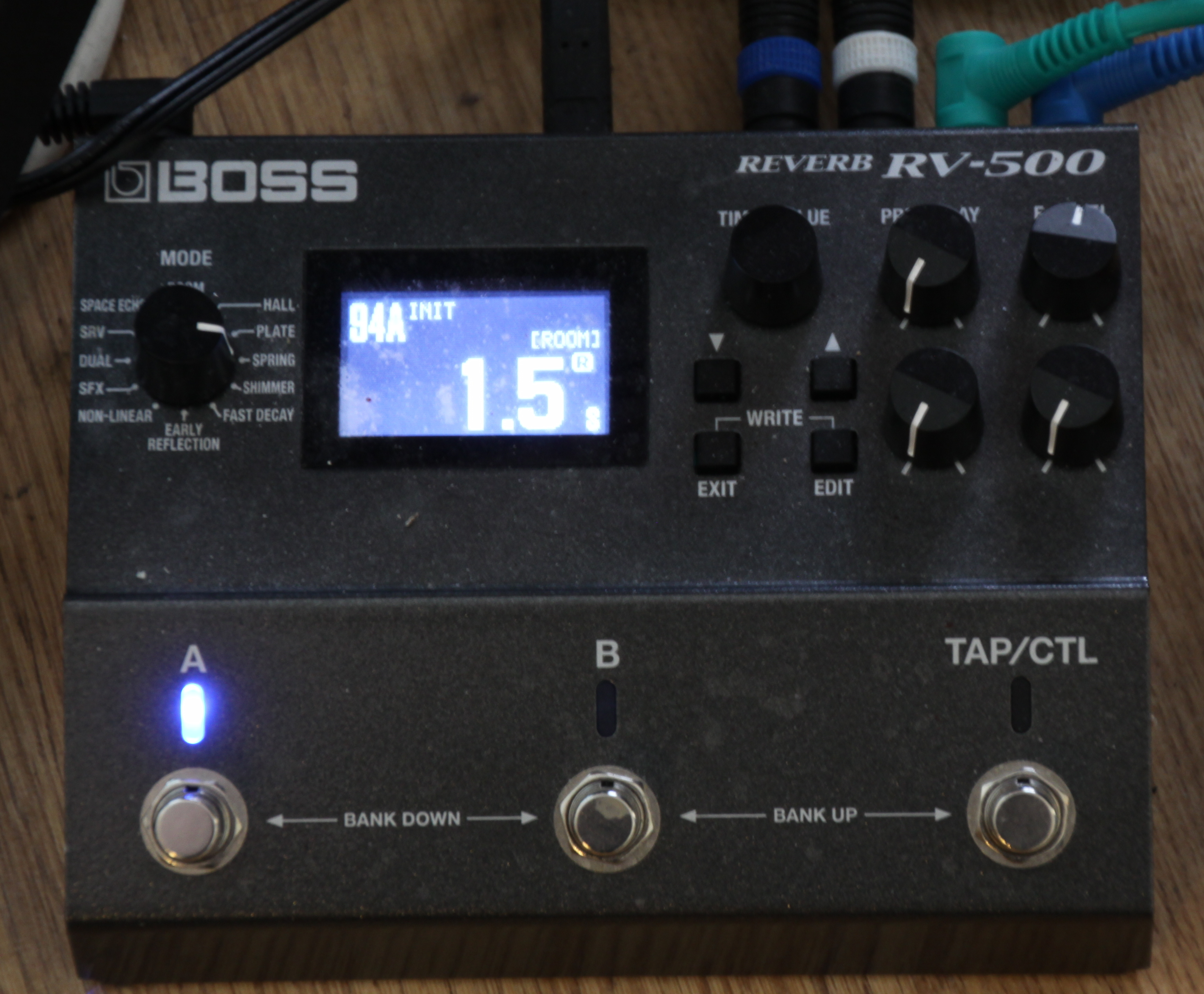 BOSS RV-500 -reverb-multieffect